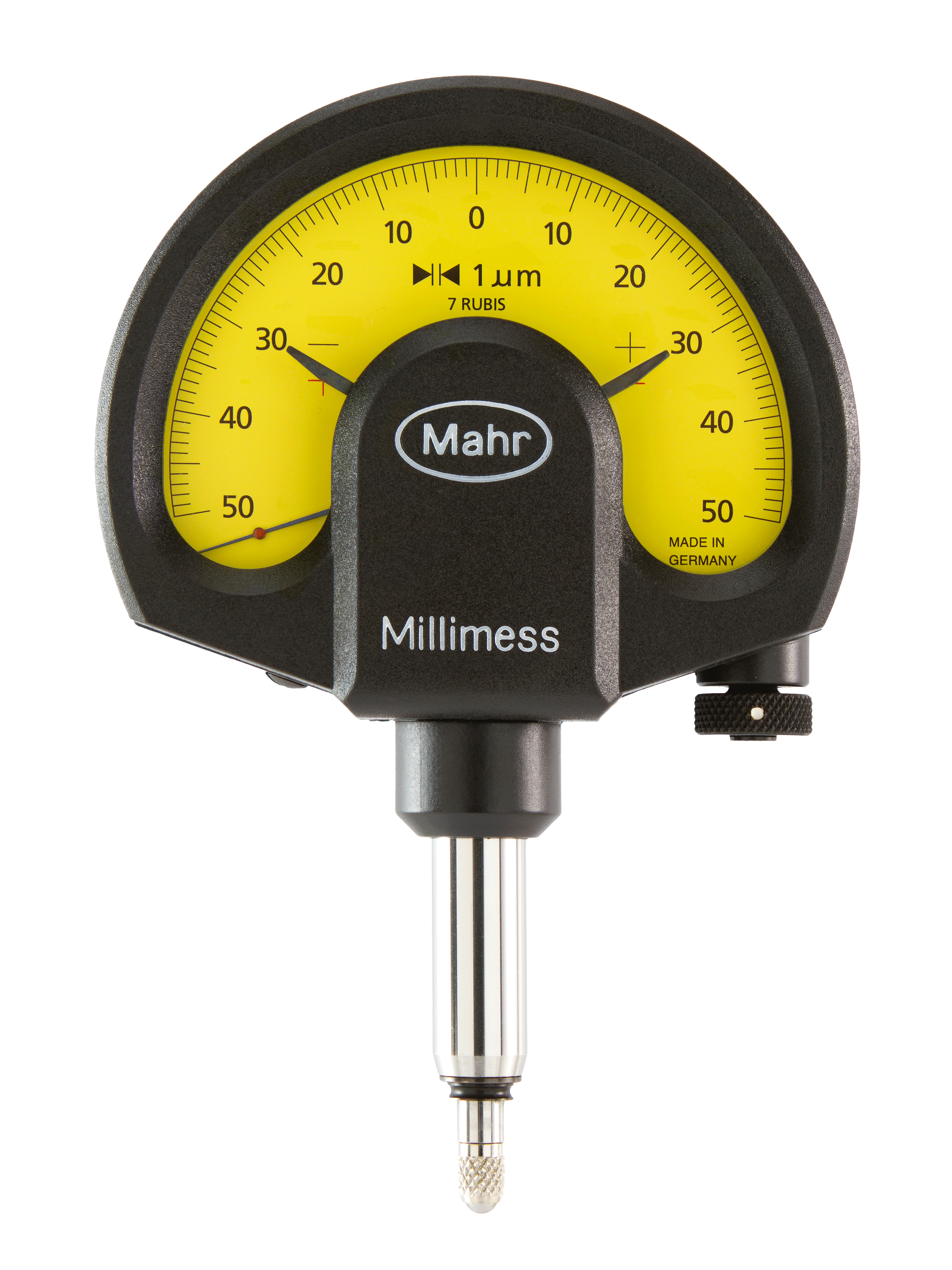 Mechanical dial comparator made by Mahr, measuring range 0.1mm and 1µm readings.